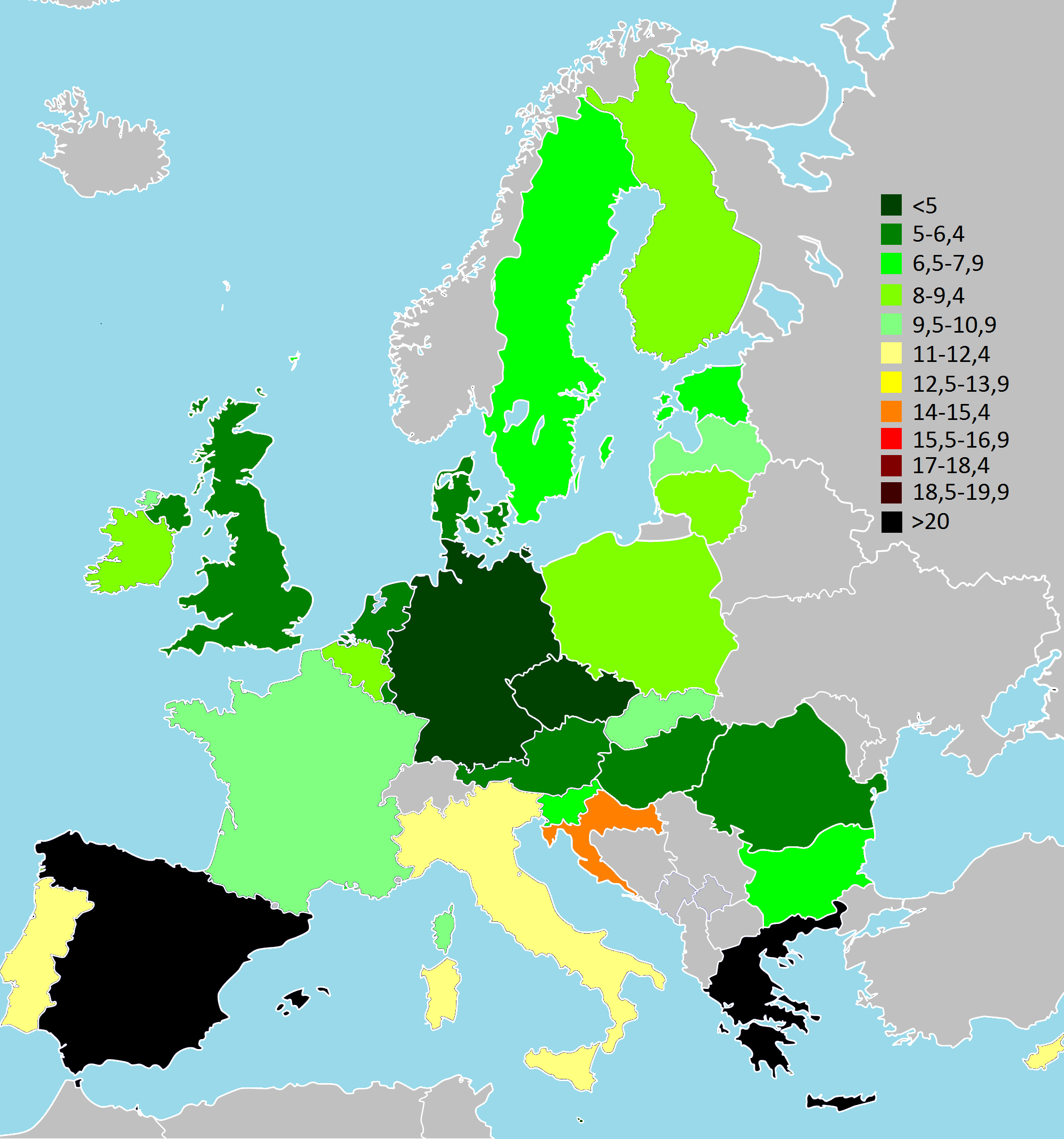 Map of unemployment rates in EU-27 countries in April 2016